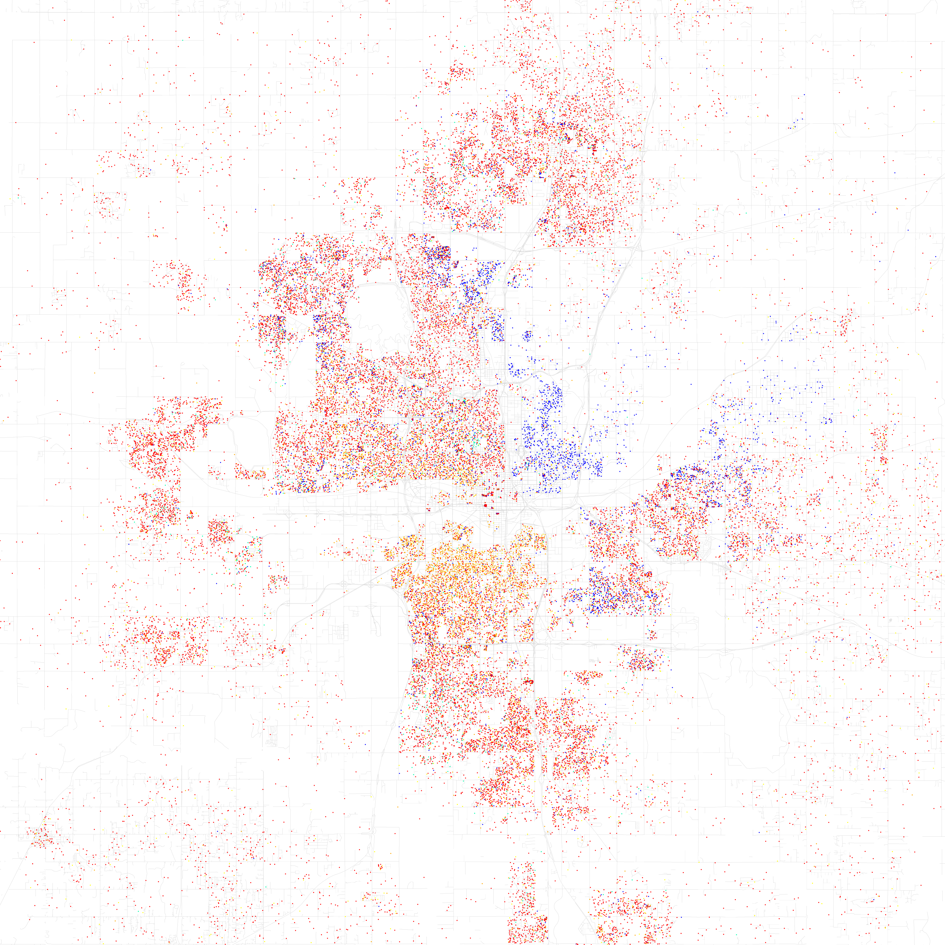 Maps of racial and ethnic divisions in US cities, inspired by Bill Rankin's map of Chicago, updated for Census 2010. Red is White, Blue is Black, Green is Asian, Orange is Hispanic, Yellow is Other, and each dot is 25 residents. Data from Census 2010.